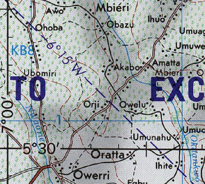 portion of the 1:250,000 topographic map of southern Nigeria showing the village of Akabo 10 km northeast of Owerri, in Imo State